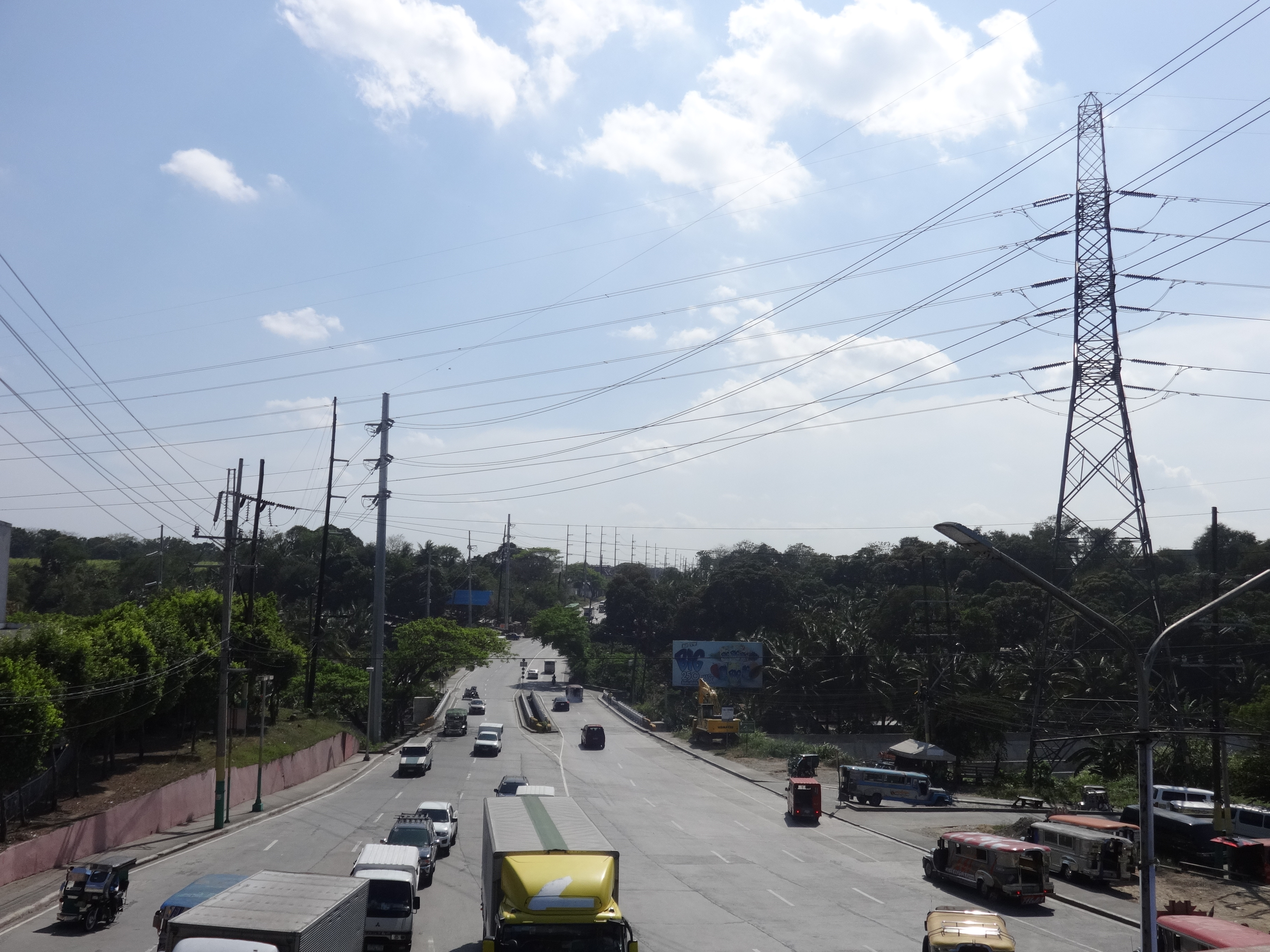 A portion of Governor's Drive near Aguinaldo Highway in Dasmariñas City, Cavite